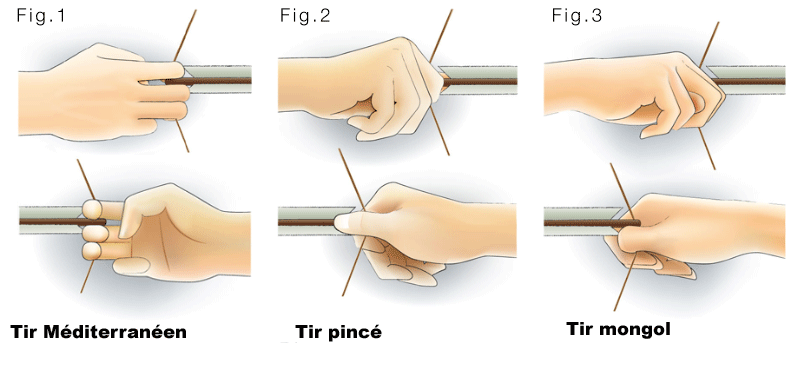 Kyudo, Archery, Yumi, Bow. Main methods of drawing bows. - french version